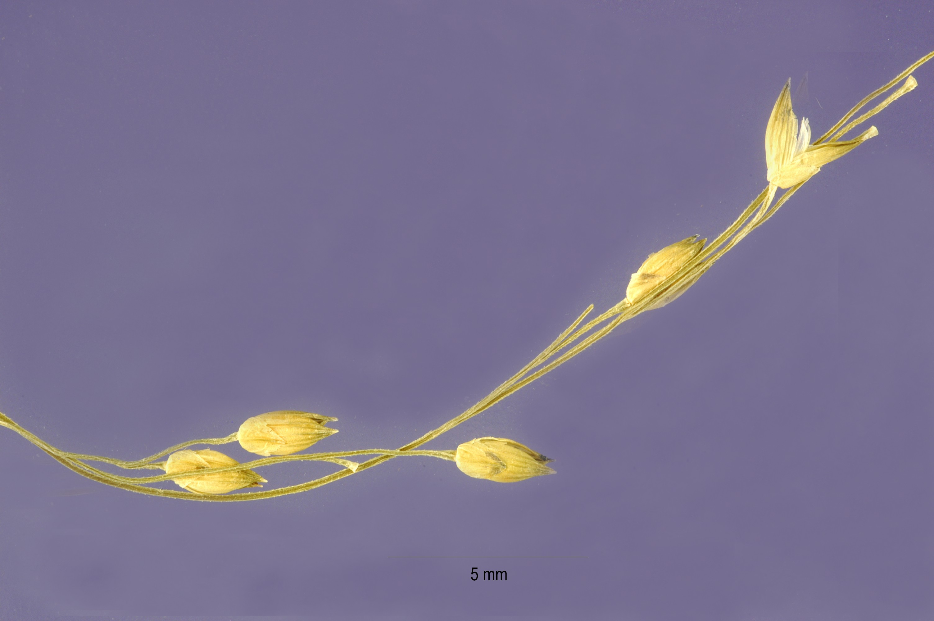 Panicum hirticaule from Jose Hernandez. Provided by USDA ARS Systematic Botany and Mycology Laboratory. Brazil, Joazeiro.